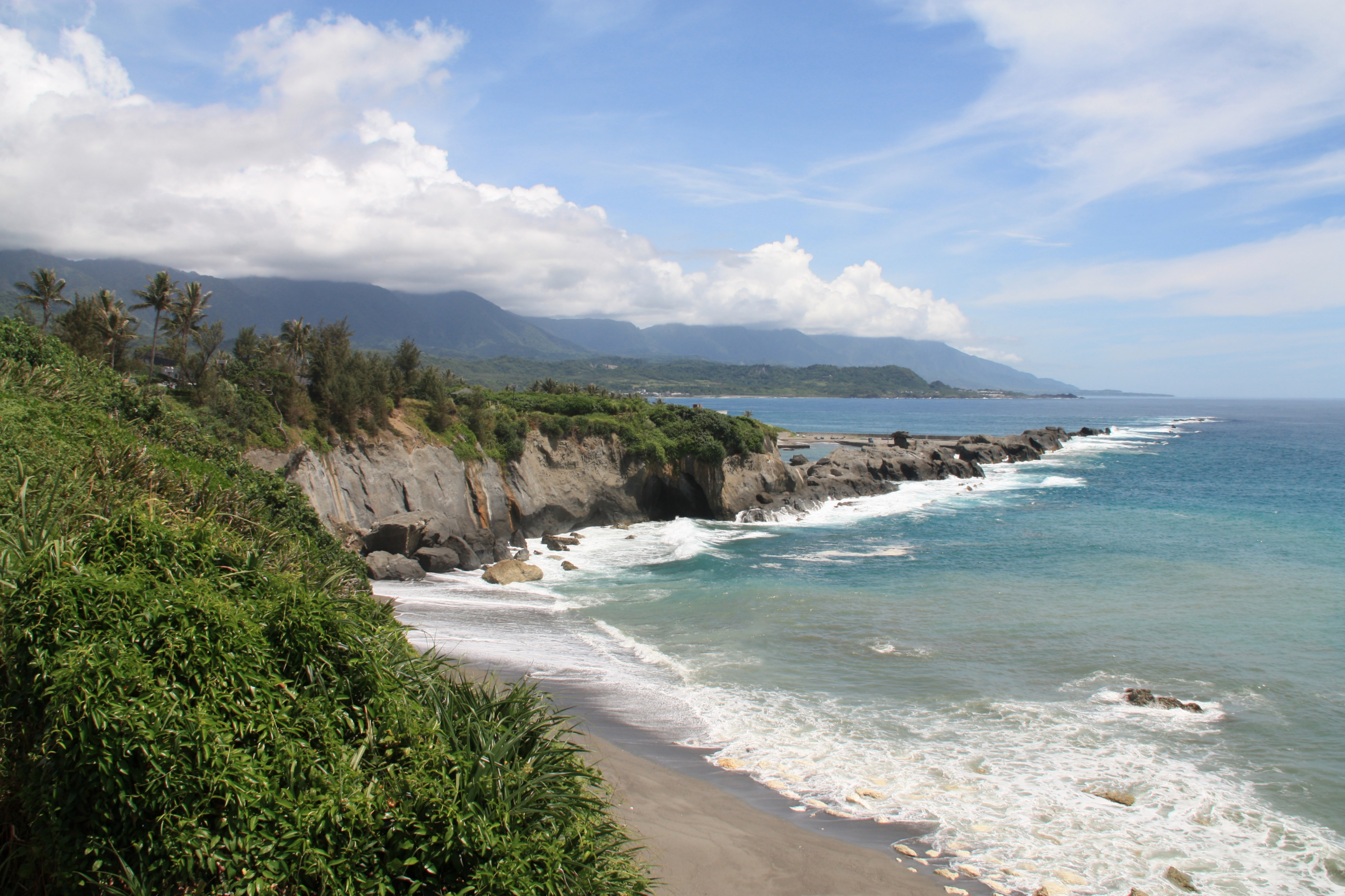 Taitung County Chenggong Township HǎiÀn Rd (HYW 11) Shihyusan rest area